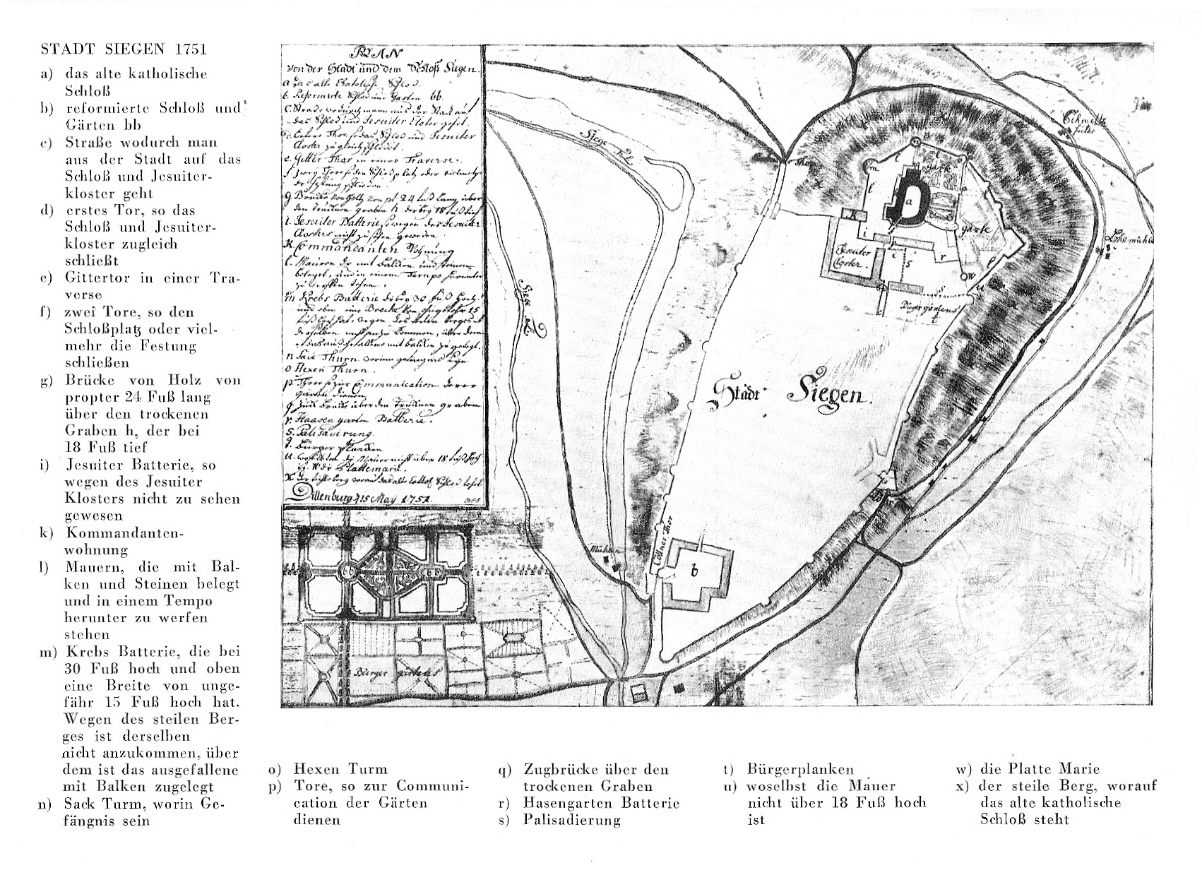 City of Siegen (Westphalia, Germany): Town map, 1751